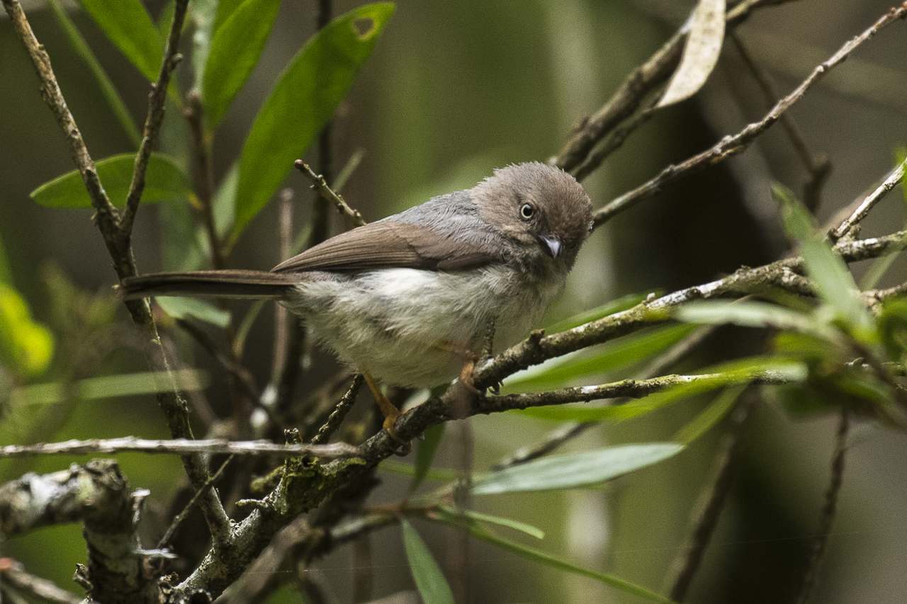 Pygmy Tit - Cibodas Bot.Gardens_MG_3731